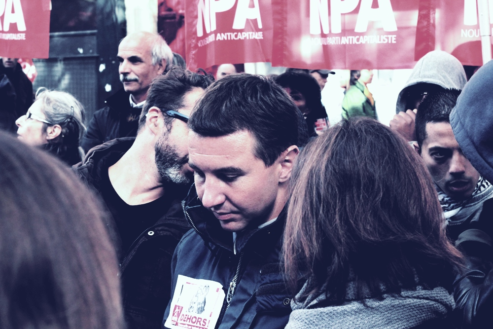 Olivier Besancenot